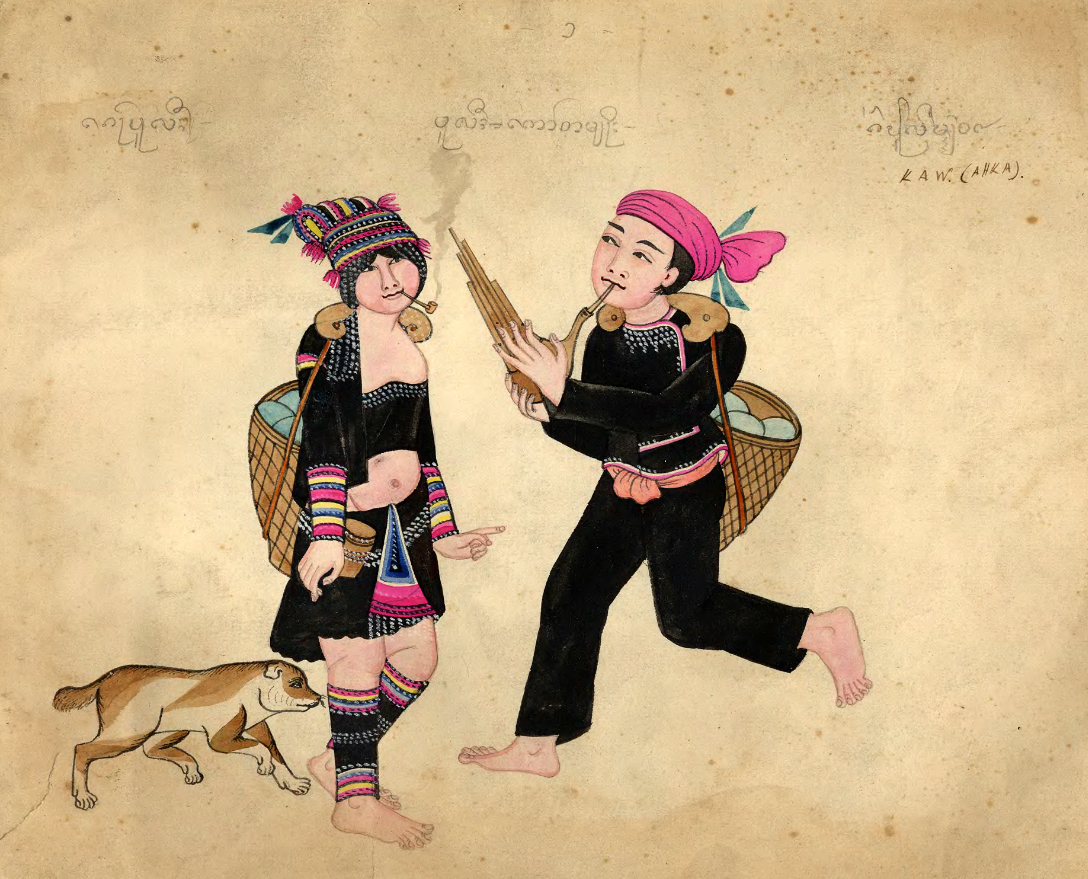 Akha tribe from a handpainted color manuscript